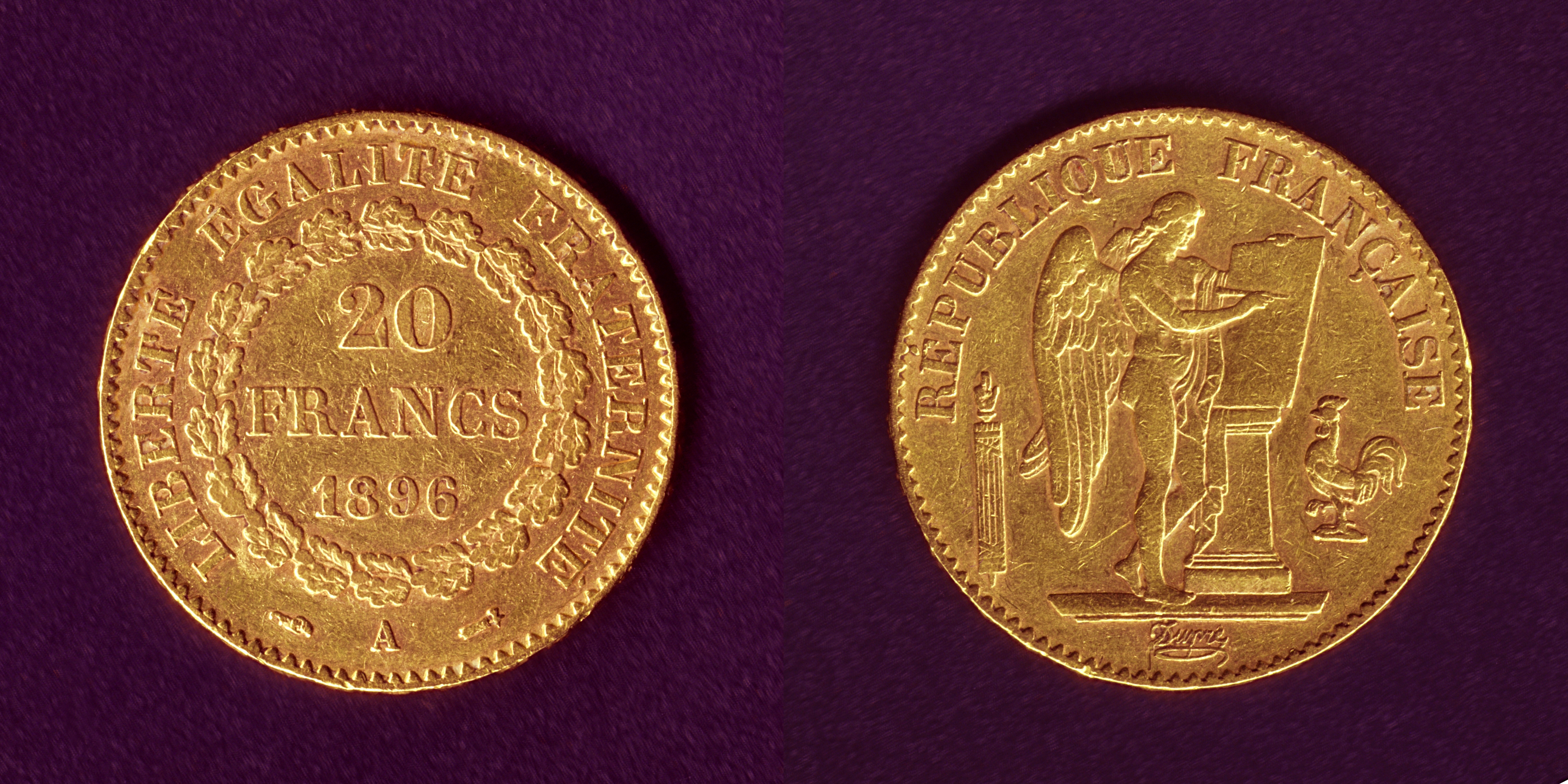 20 french francs of the third republic, year: 1896, head: angle writing the new constitution, left: the fasces, right: a rooster, designer: Augustin Dupré, material: gold 900/1000.